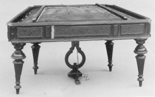 Hungarian; Cimbalom; Chordophone-Zither-struck-dulcimer